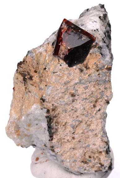 Zircon Locality: Darra-i-Pech (Pech; Peech; Darra-e-Pech) Pegmatite Field, Nangarhar (Ningarhar) Province, Afghanistan (Locality at ) This is about as red as Zircon gets from most localities. This piece features a sharp, lustrous, translucent, red crystal of Zircon measuring 1.3 cm on Mica/Quartz matrix. A very colorful crystal, but there is a contact on the termination. 7.2 x 4.6 x 3.1cm